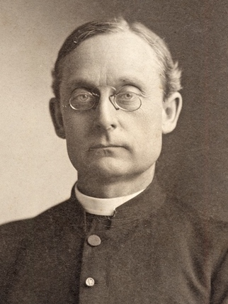 Portrait photograph of J. Havens Richards, president of Georgetown University